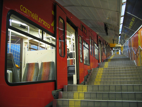 A train at the station in Haifa's Carmelit subway.